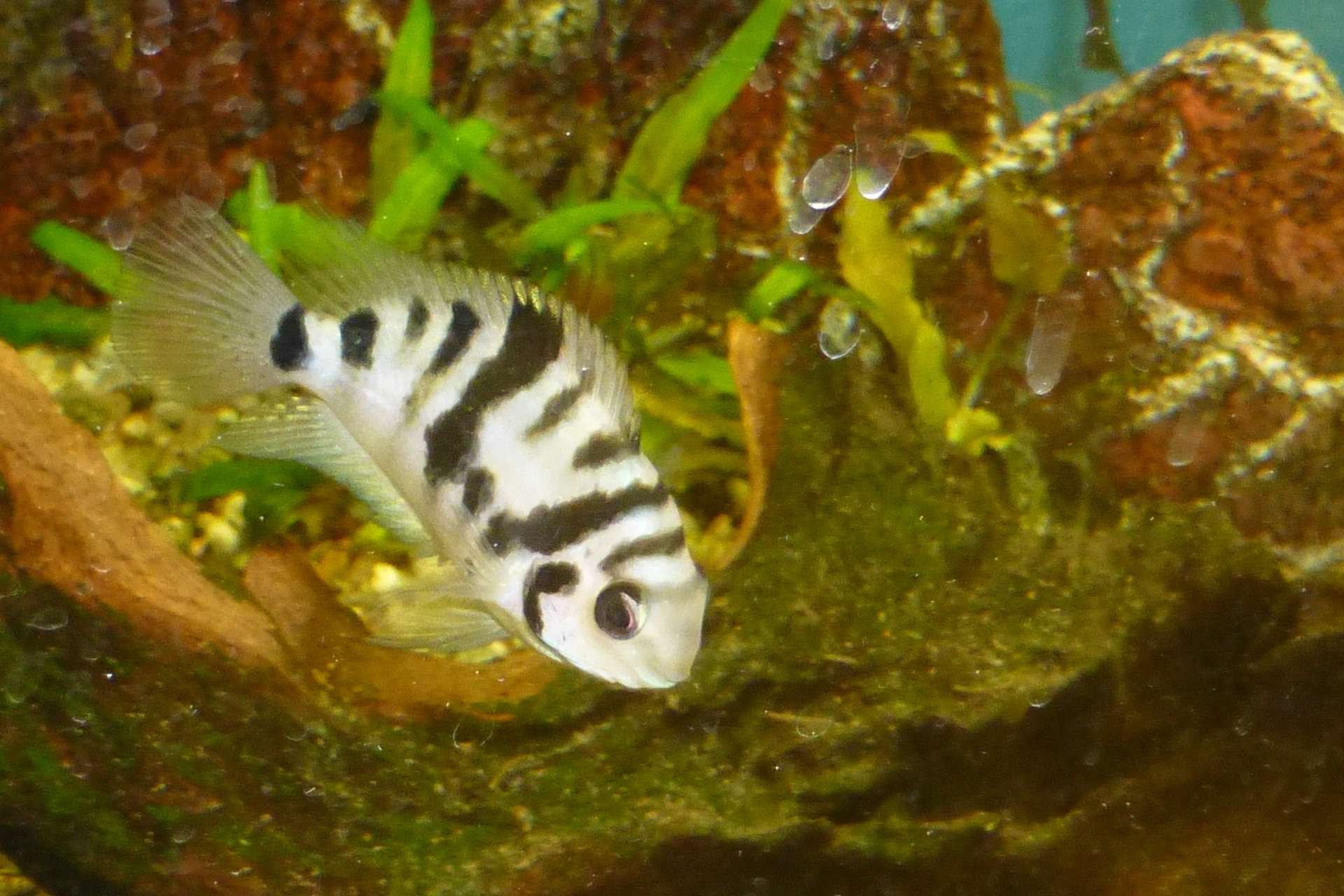 Amatitlania siquia from Lake Xiloá